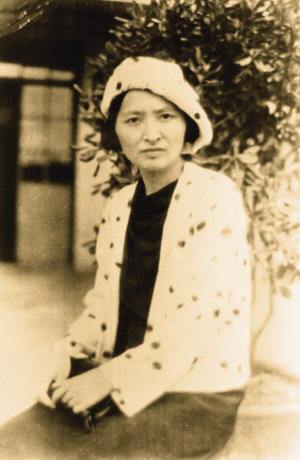 Chen Xuezhao (Chinese: 陈学昭; Wade–Giles: Ch'en Hsueh-chao; April 17, 1906[1] – 1991) was a Chinese writer and journalist. in 1936